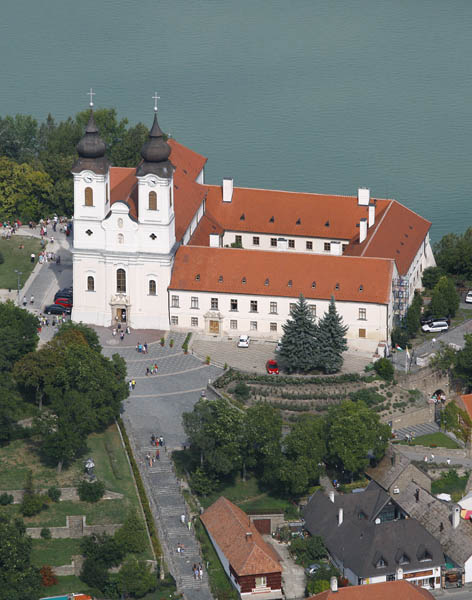 Tihany, Hungary, Veszprém county, aerial photography